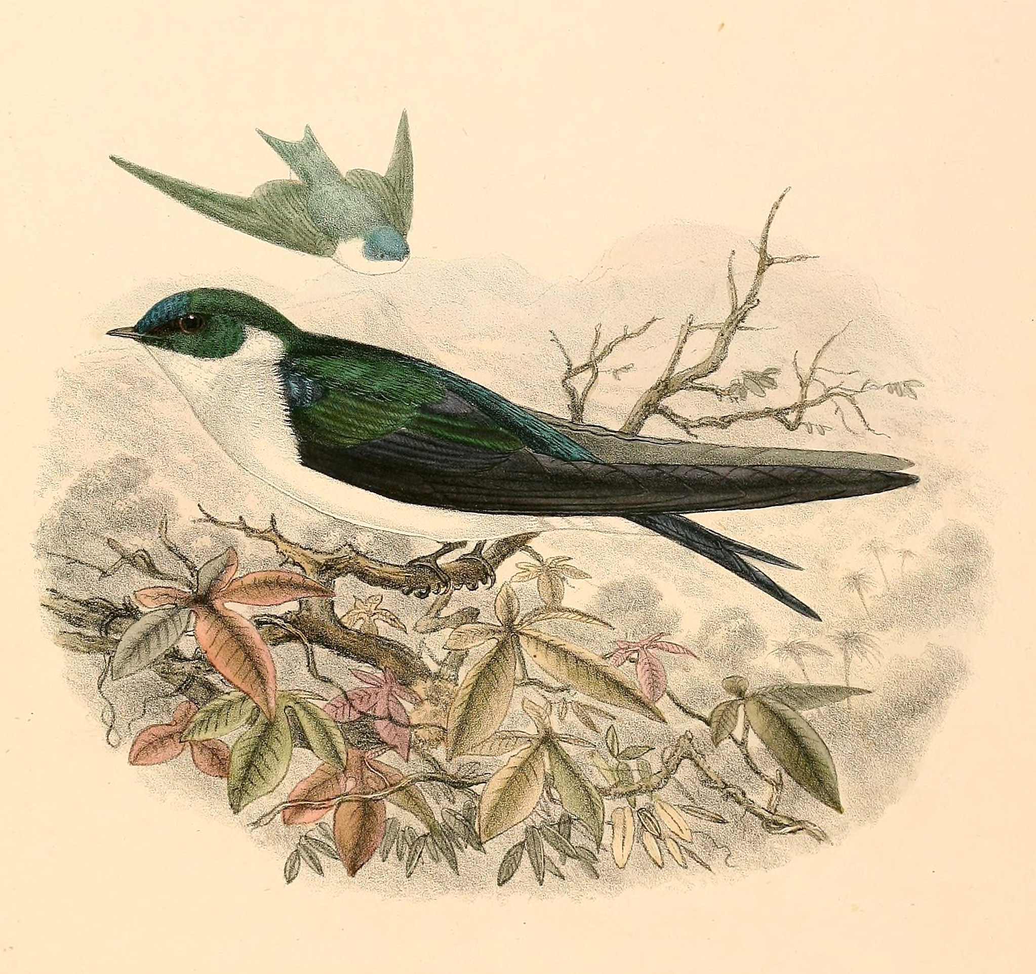 « Hirundo sclateri » = Tachycineta euchrysea sclateri (Subspecies of Golden Swallow)